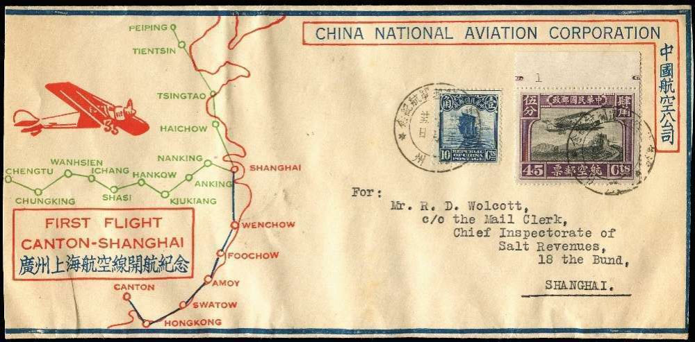 CHINA National Aviation Corporation Cover FIRST FLIGHT CANTON-SHANGHAI.